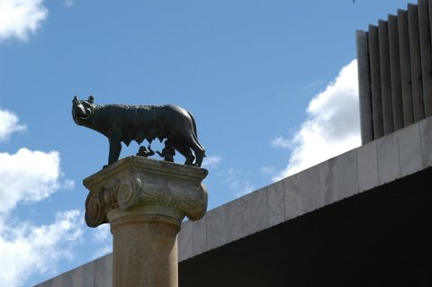 romeo and reno statue